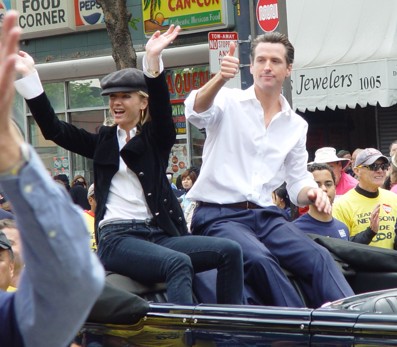 San Francisco major Gavin Newsom with his fiance Jennifer Siebel at the 2008 Gay Parade San Francisco, CA